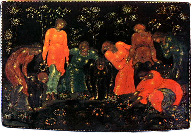 Divination using garlands. Miniature on a casket.